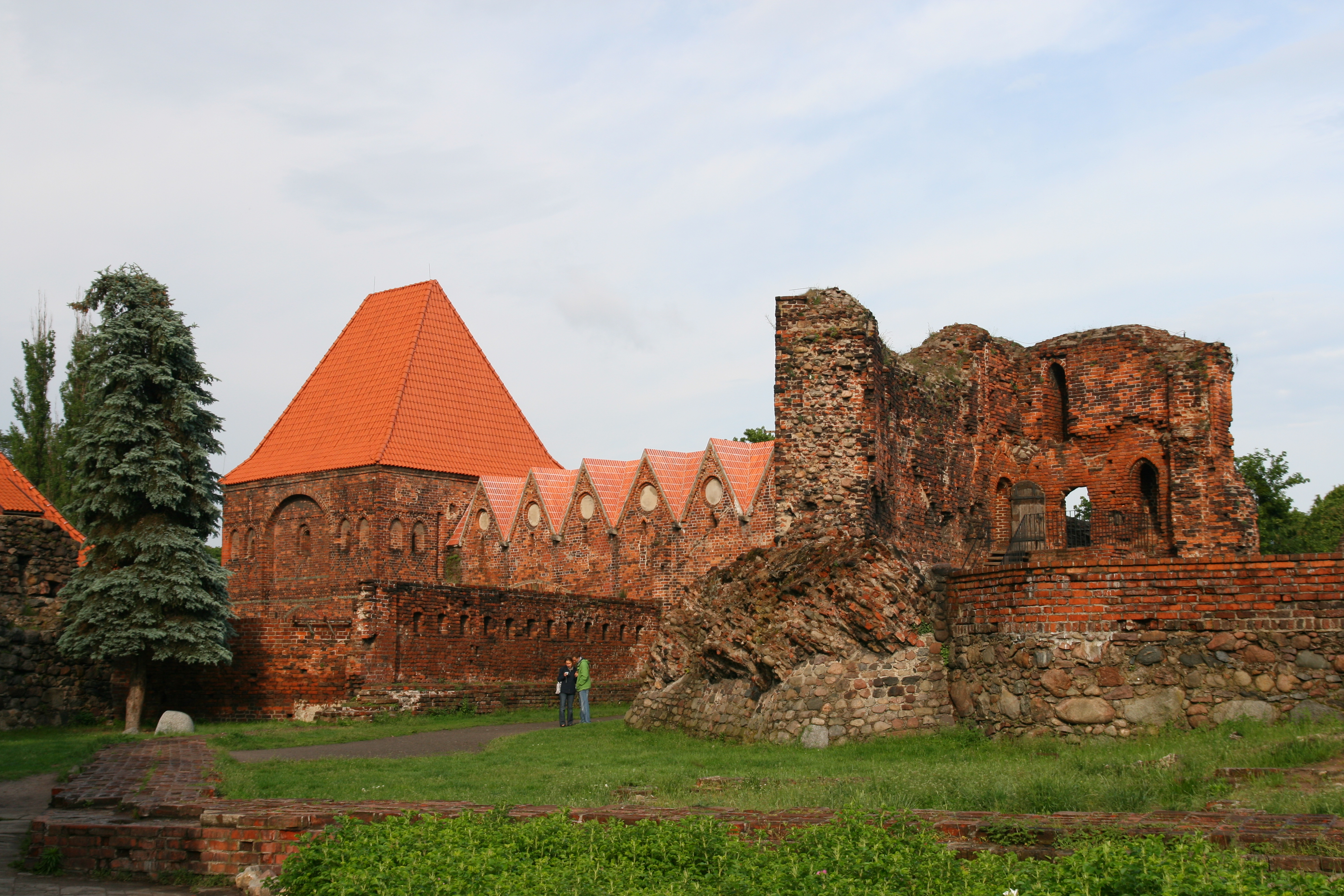 Teutonic Knights Castle (ruins of the castle and latrine tower) in Toruń.